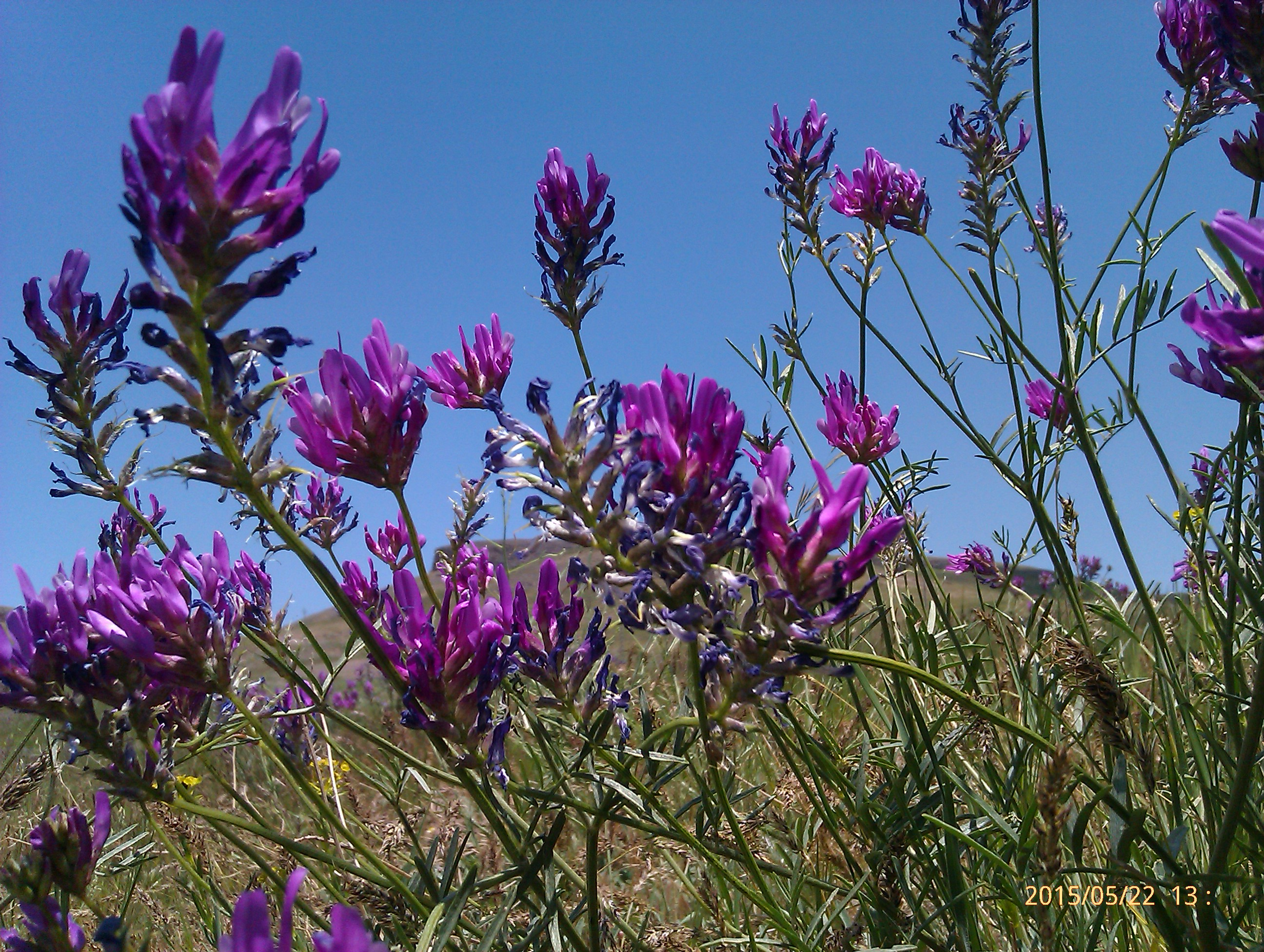 گلهای بهاری روستای شاه تپه قزوین